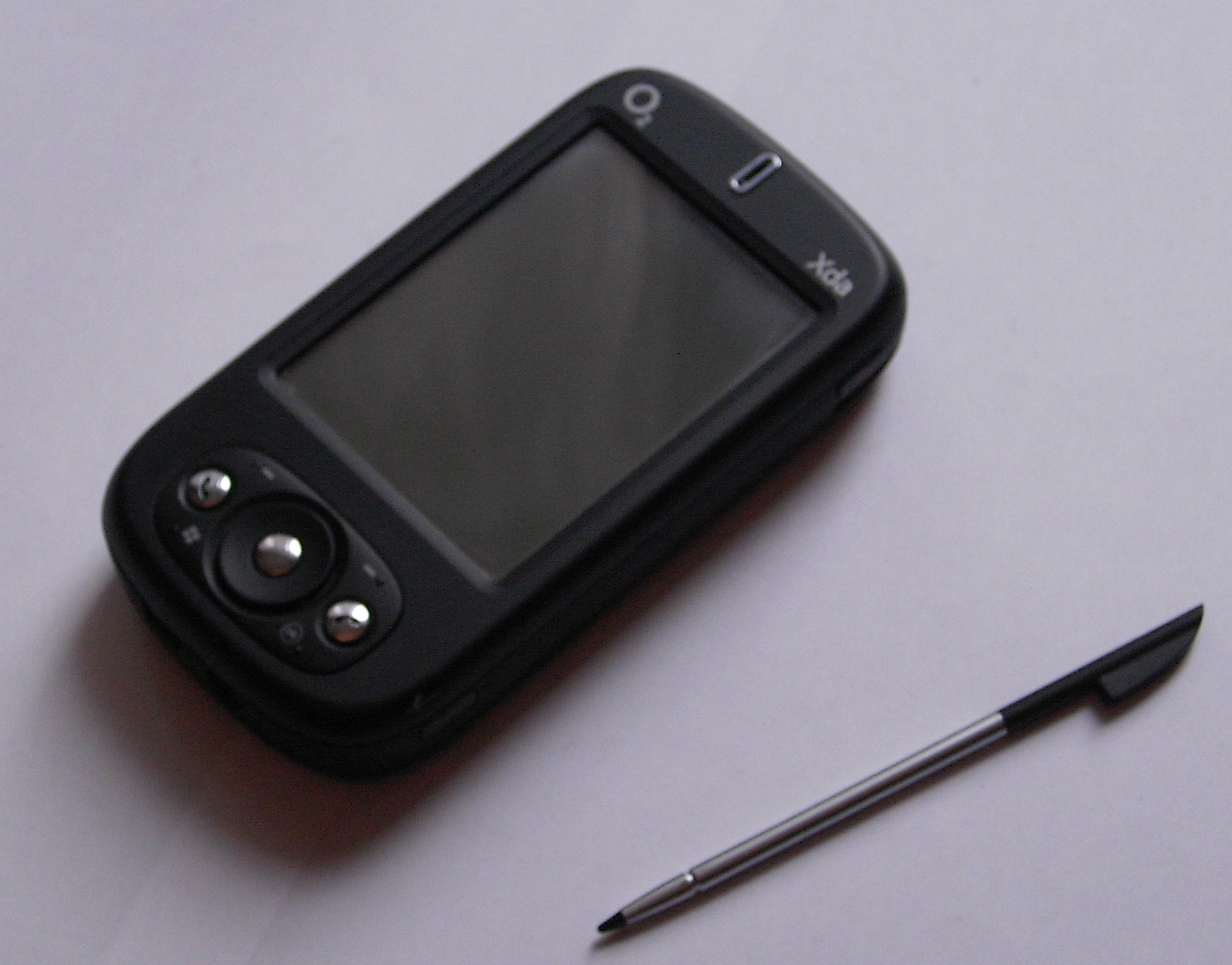 HTC Corporation smart phone "Prophet", sold branded as O2 XDA Neo